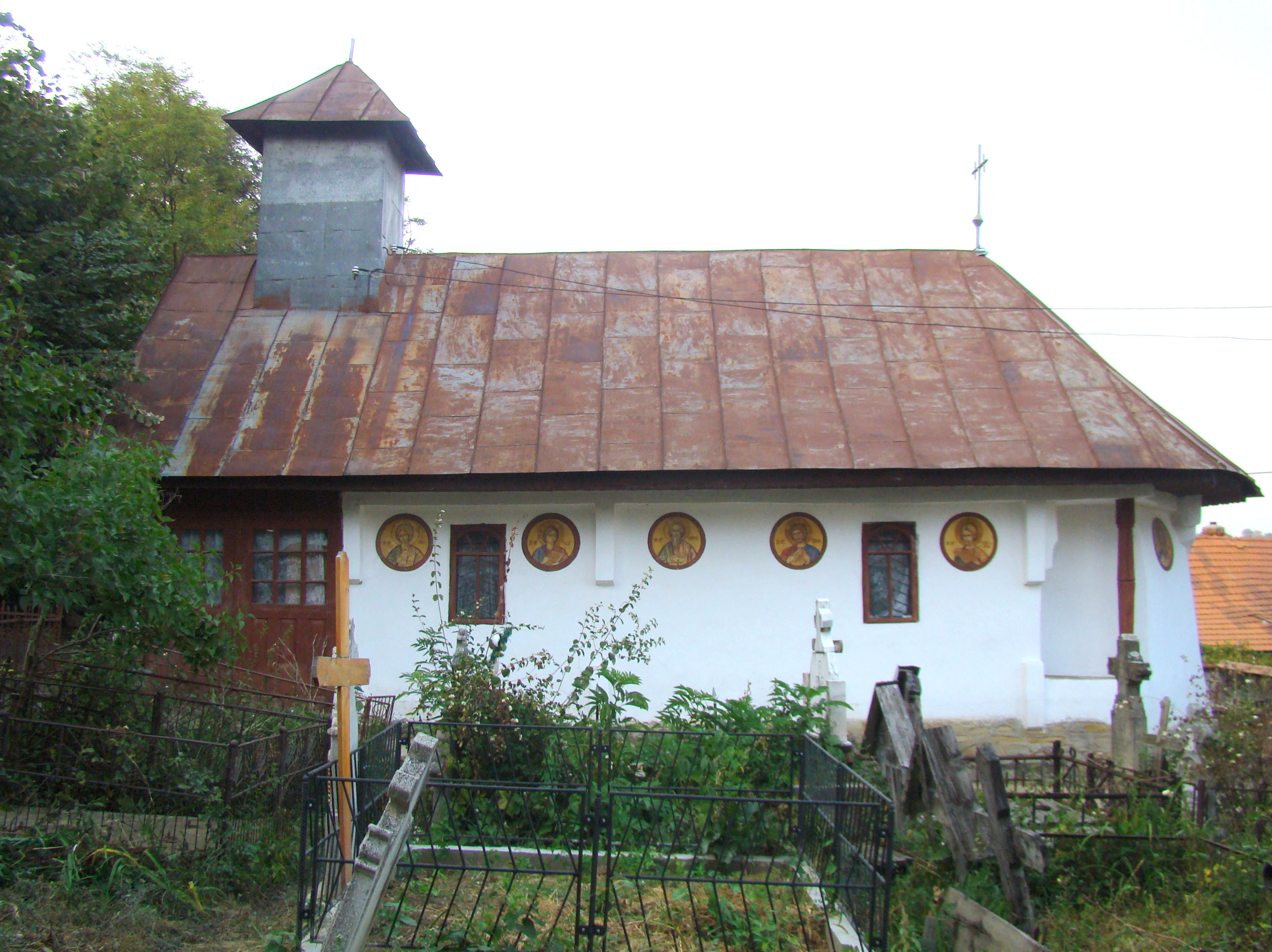 Wooden church in Maghereşti, Gorj county, Romania